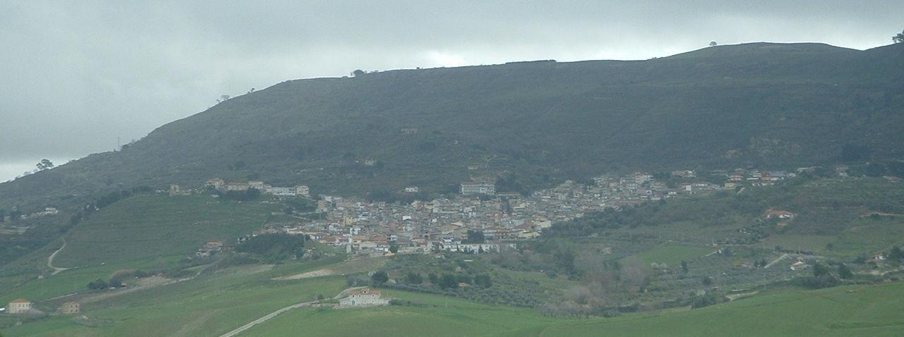 View of San Michele di Ganzaria (CT)